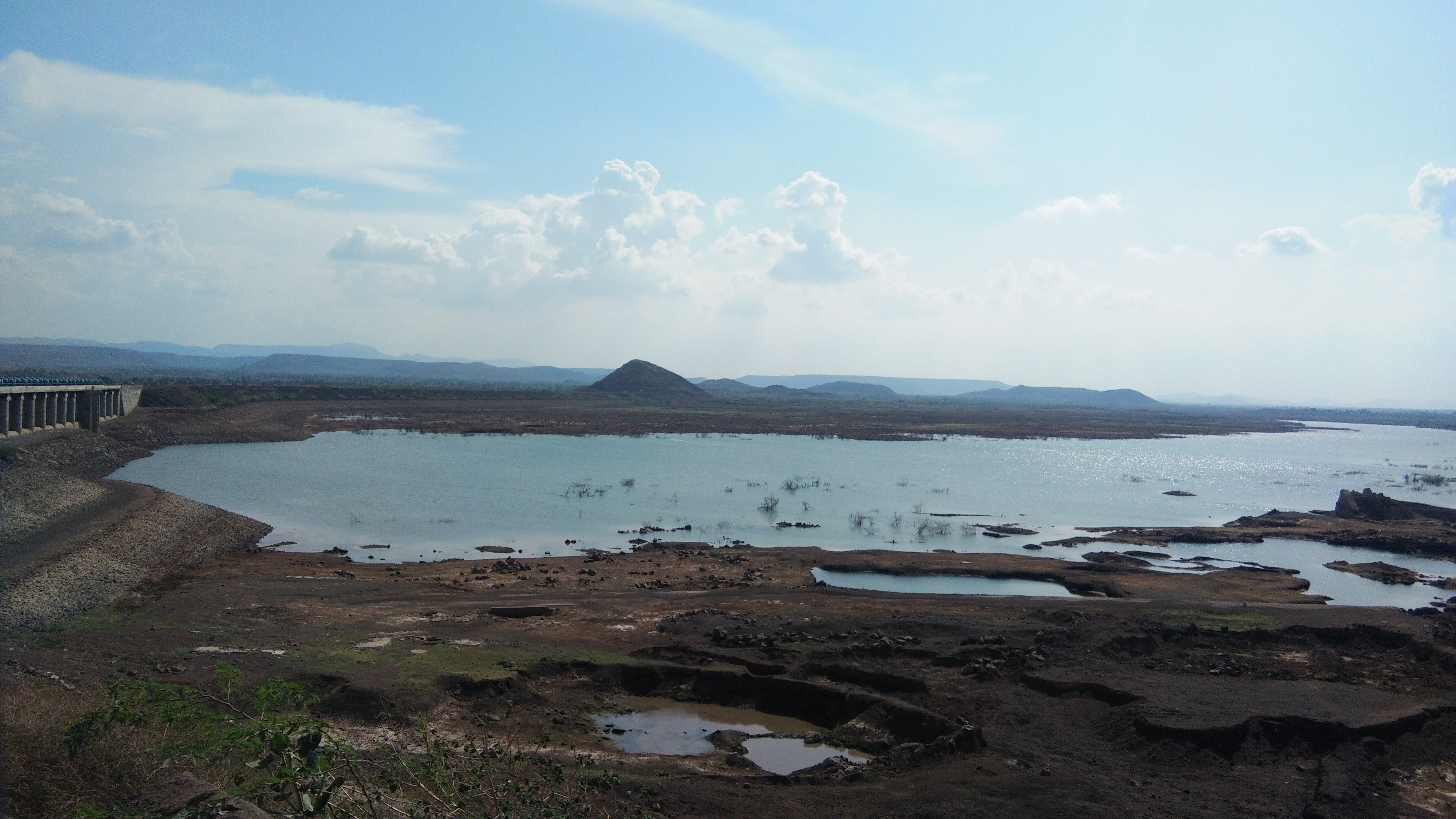 अक्कलपाडा धरन